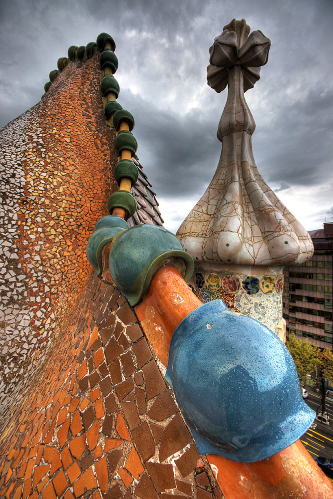 Roof architecture at Casa Batllo